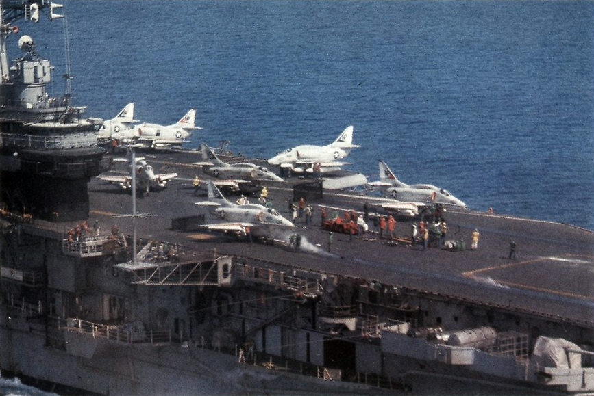 U.S. Navy Douglas A-4F Skyhawks being launched from the deck of the aircraft carrier USS Hancock (CVA-19) for a strike in Vietnam in 1969. The A-4F on the starboard catapult was assigned to Attack Squadron VA-55 War Horses, the one on the port catapult to VA-164 Ghost Riders. All squadrons were assigned to Attack Carrier Air Wing 21 (CVW-21) aboard the Hancock for a deployment to Vietnam from 2 August 1969 to 15 April 1970.